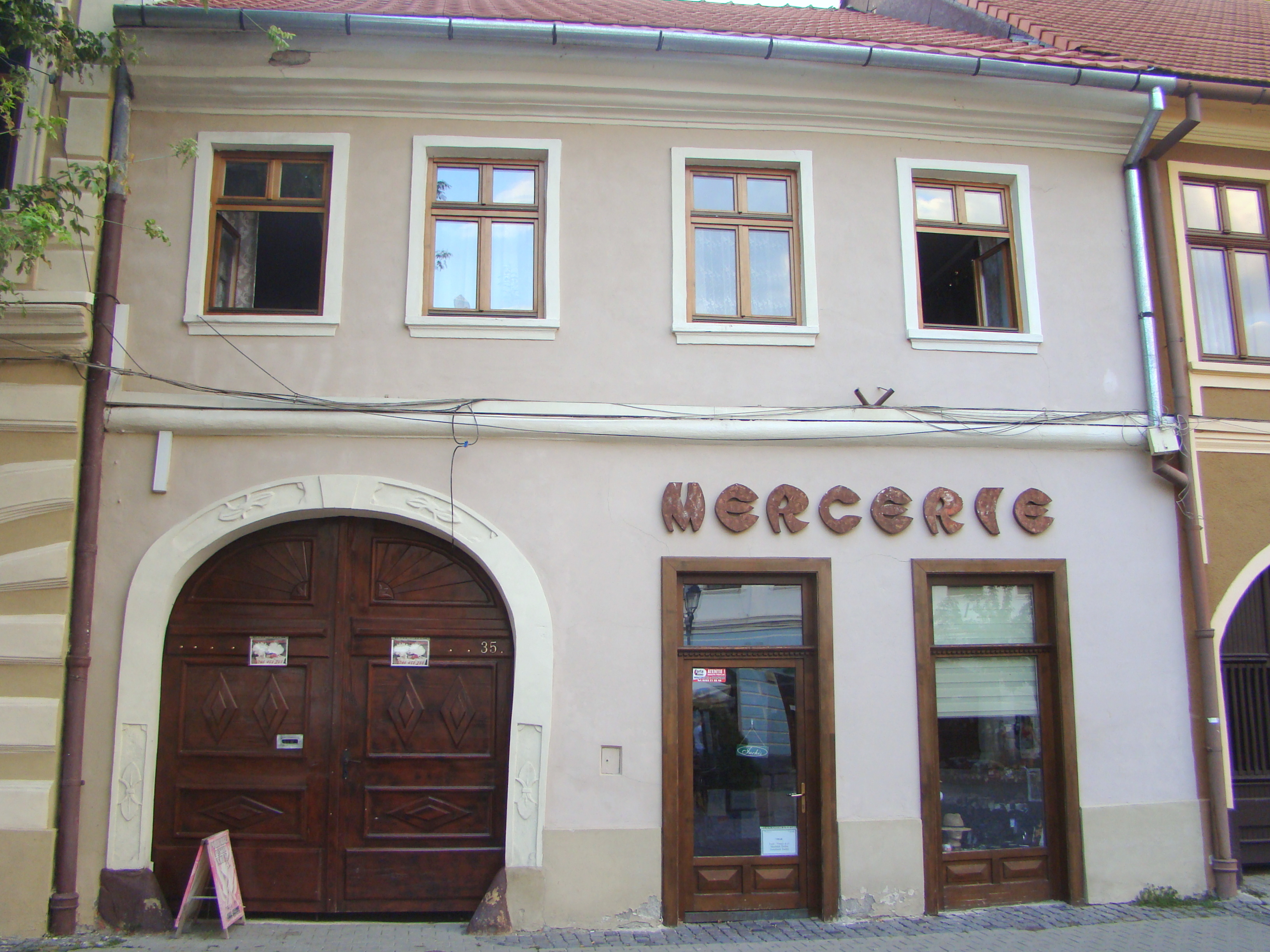 House, historic monument, in Bistrița, Liviu Rebreanu street 35